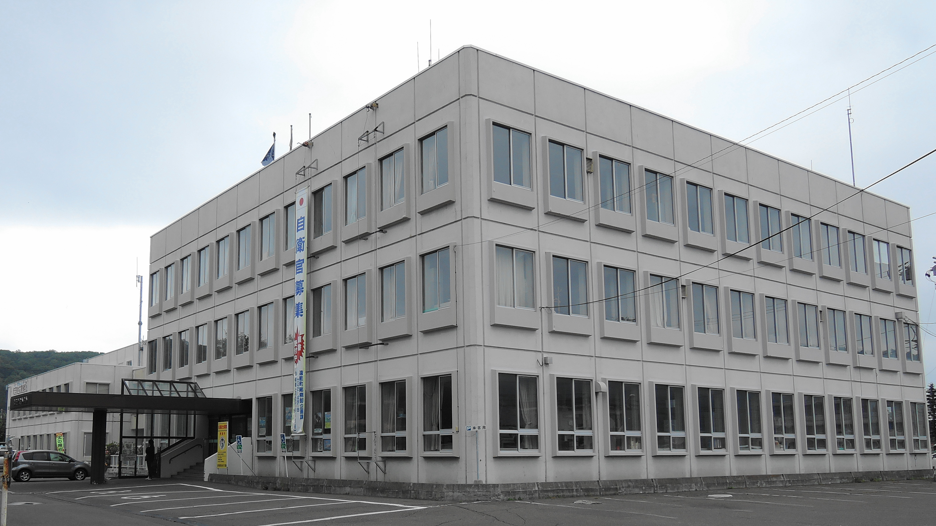 Engaru town hall,Hokkaido prefecture,Japan